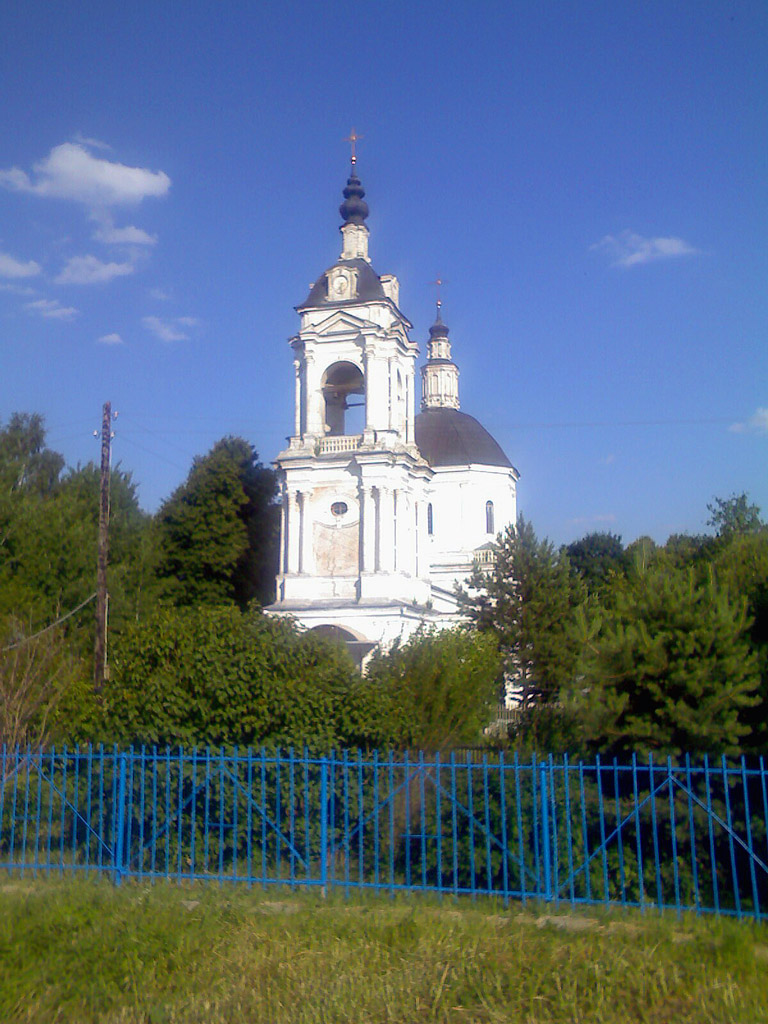 The church in Avdot'ino where Nikolay Niovikov is buried